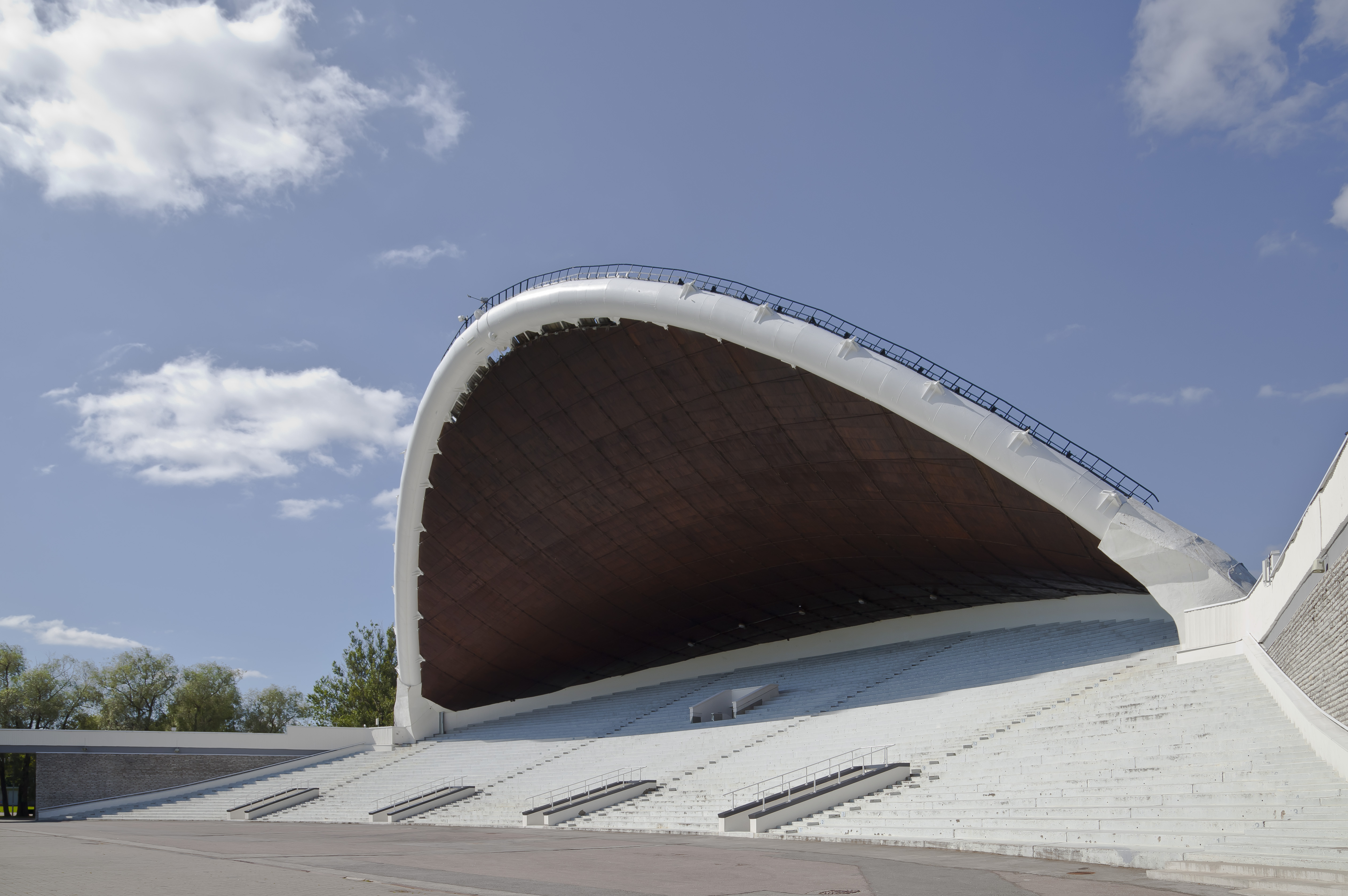 Tallinn Song Festival Grounds, Tallinn, Estonia